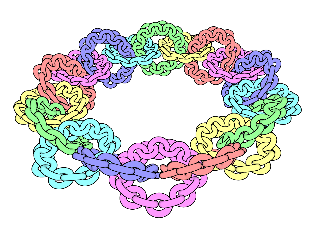 Second iteration of the Antoine's necklace fractal rendered with blender